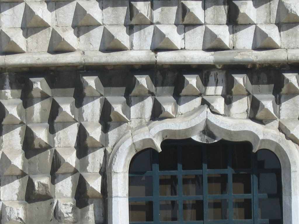 Detail of the Casa dos Bicos (16th c.) in Lisbon, Portugal